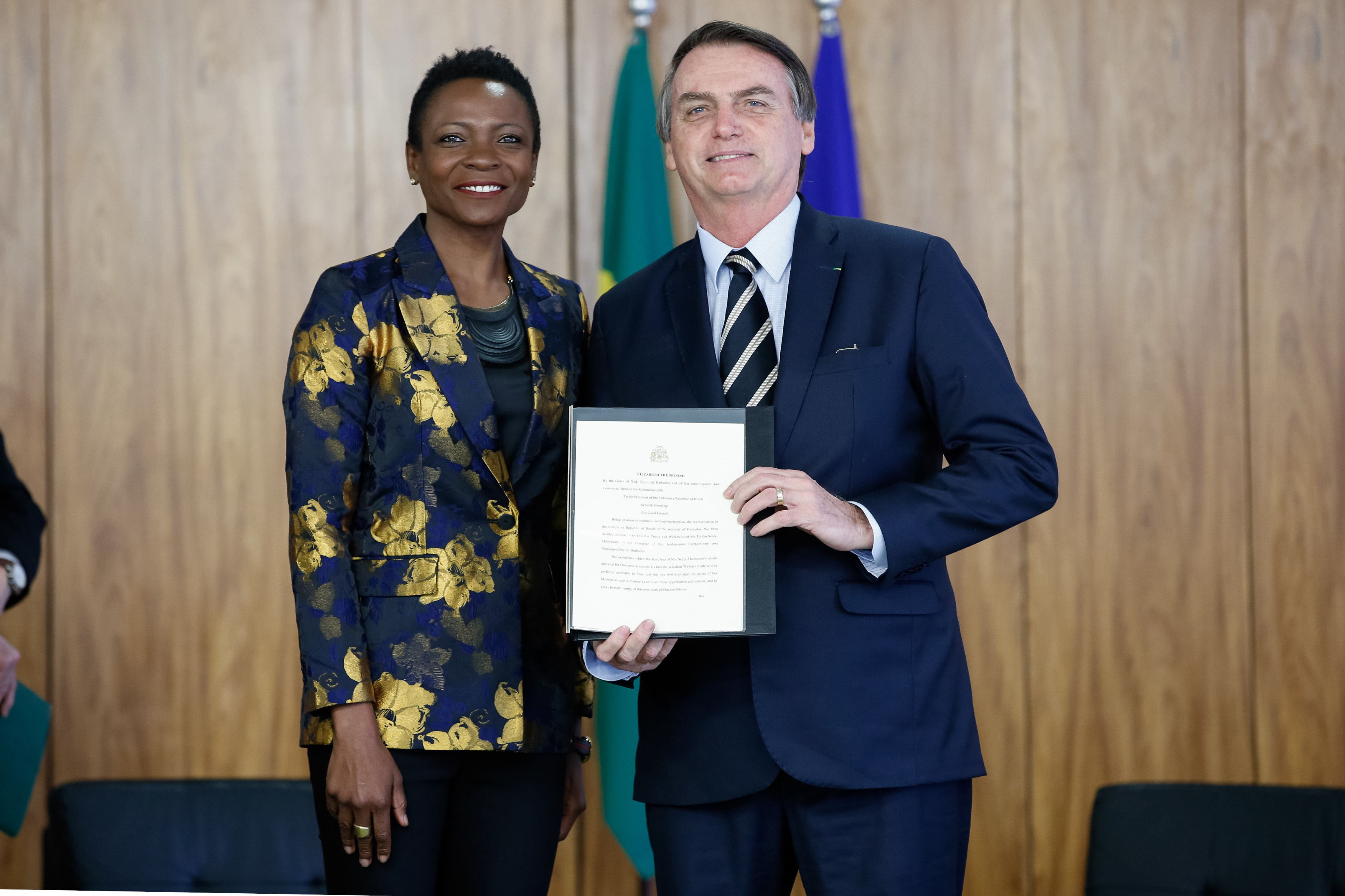 (Brasília - DF, 08/03/2019 ) President, Jair Bolsonaro and the Barbadian ambassador Tonika Maria Sealy Thompson. photo: Alan Santos/PR